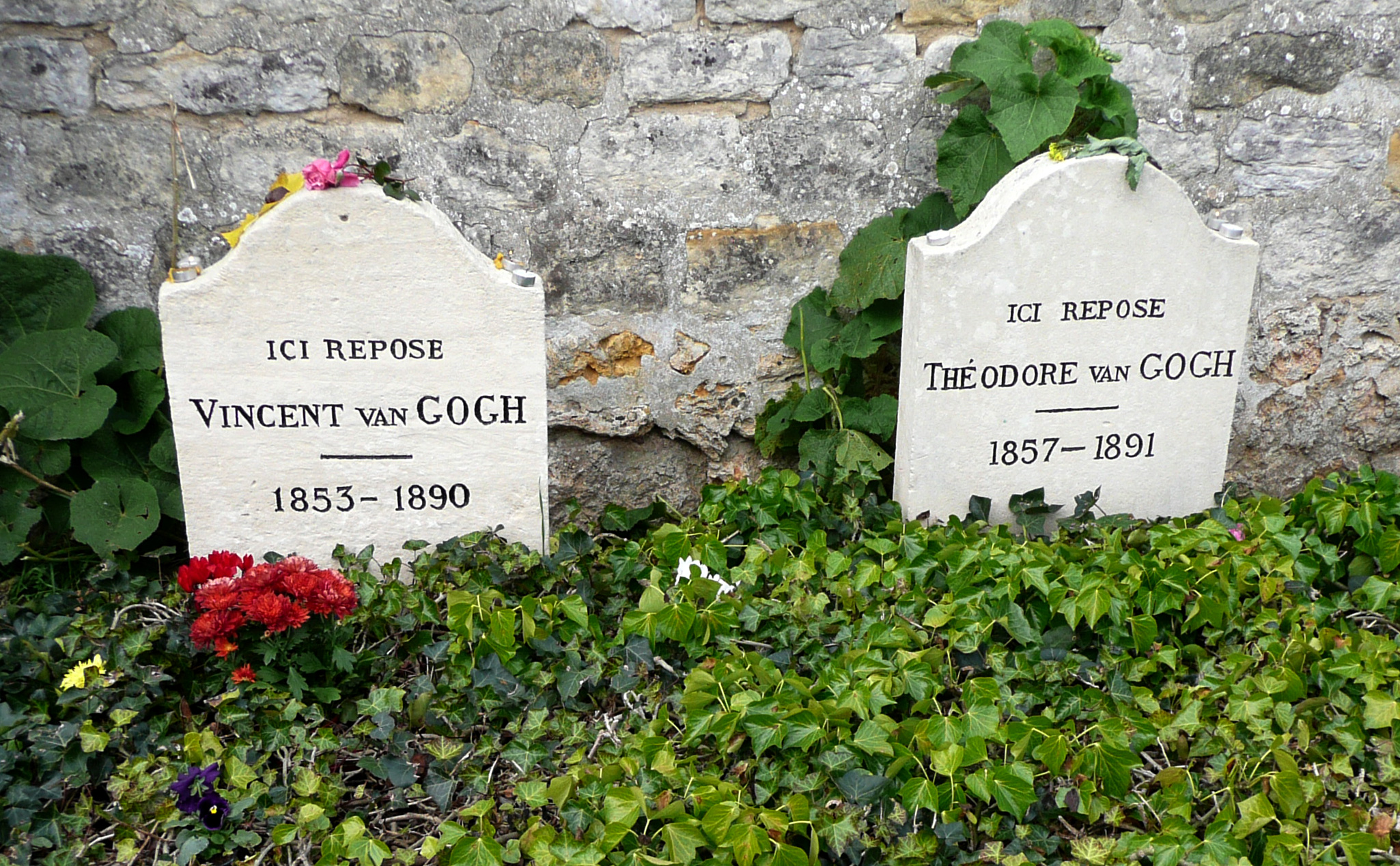 Graves of Vincent and Théodore Van Gogh